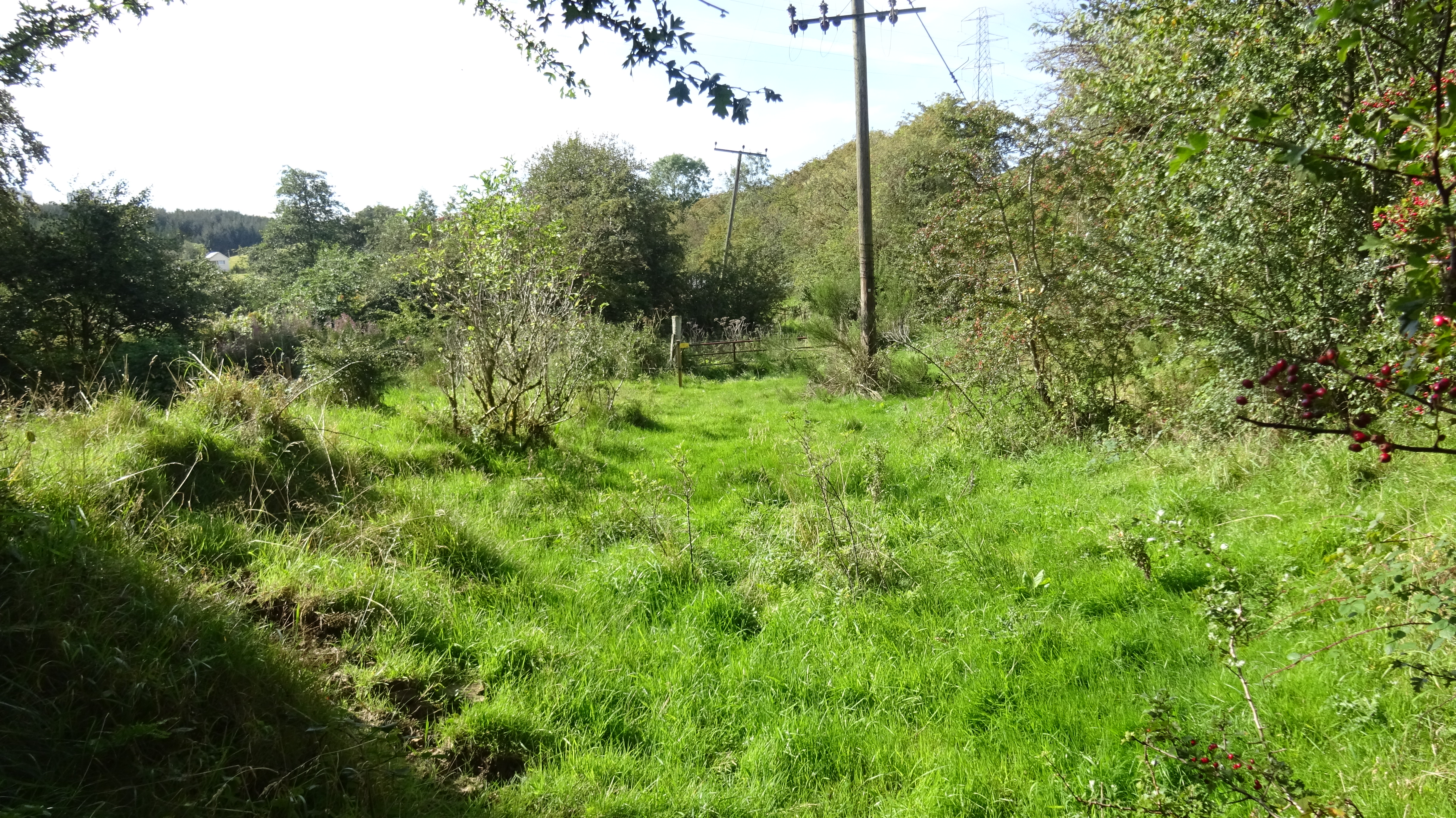 Calderwood Glen Platform, the site of old railway station, East Kilbride, Scotland. View north.